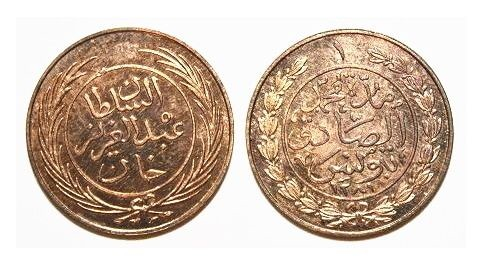 1 Tunisian Kharub coin struck in Tunis in 1281 AH, during the reign of Muhammad III as-Sadiq Bey